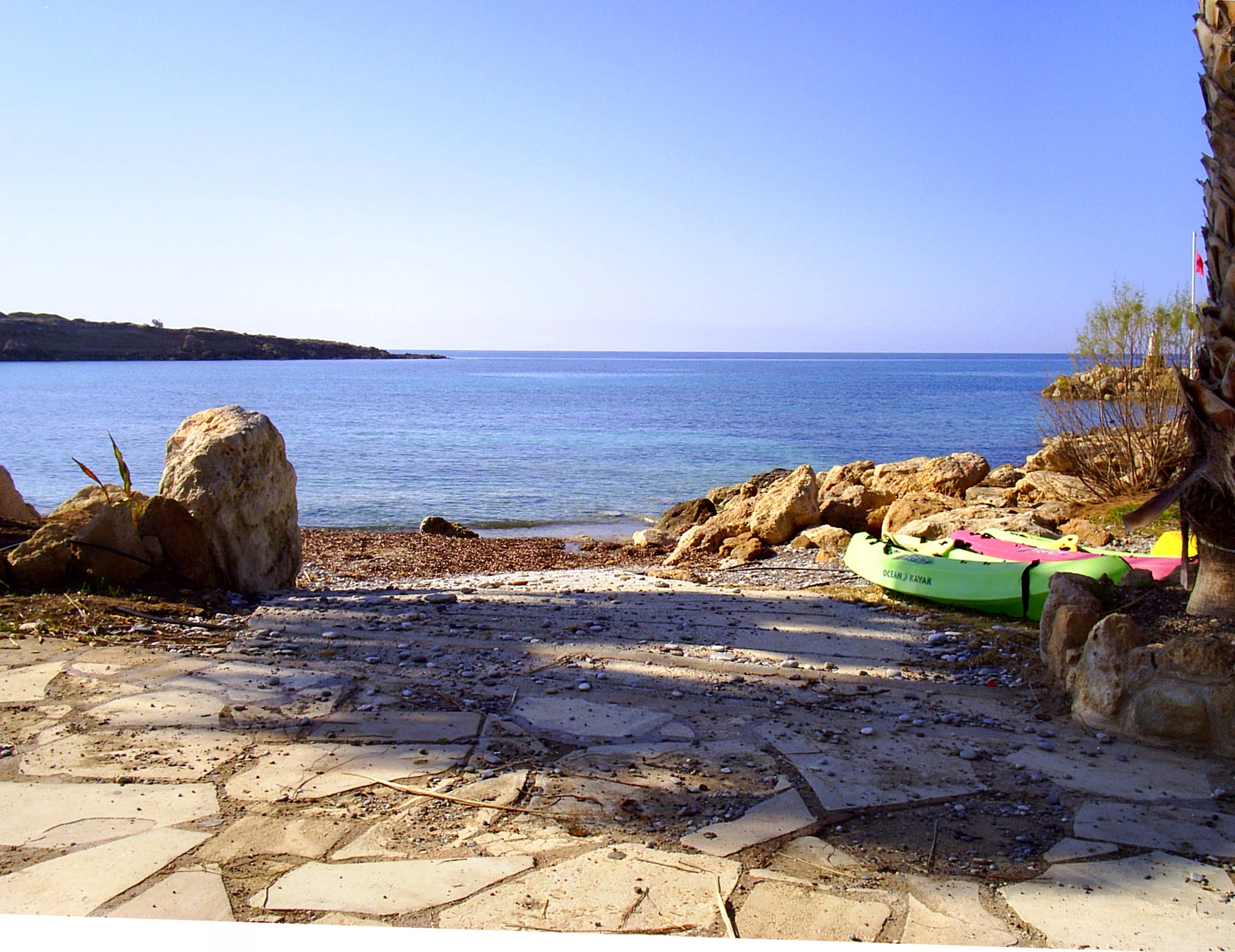 A small bay North of Paphos in Cyprus also known as Ascos Beach.